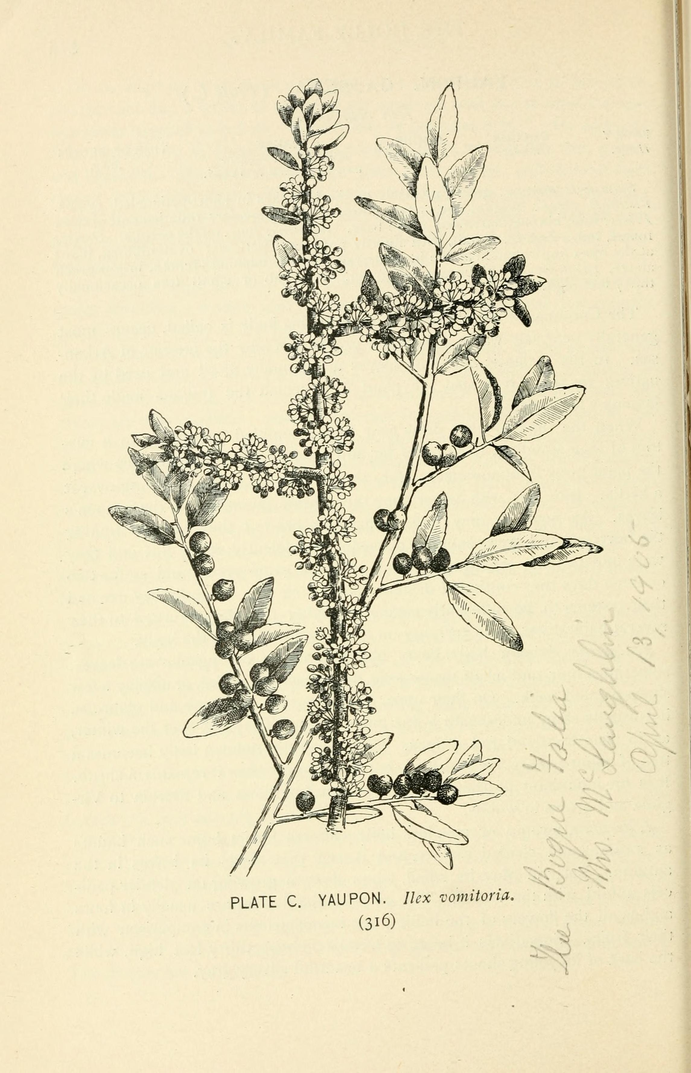 Southern wild flowers and trees, together with shrubs, vines and various forms of growth found through the mountains, the middle district and the low country of the South, by Alice Lounsberry, with plates, vignettes and diagrams by Mrs. E. Rowan, with an introduction by C. D. Beadle.